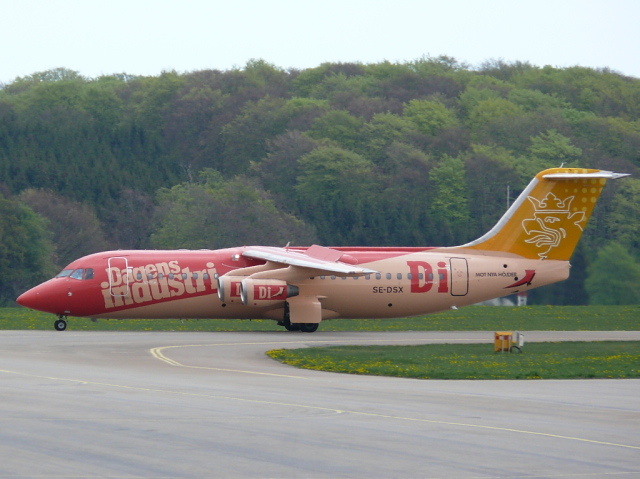 One of Malmö Aviation's Avros in the special "Dagens Industri" livery.